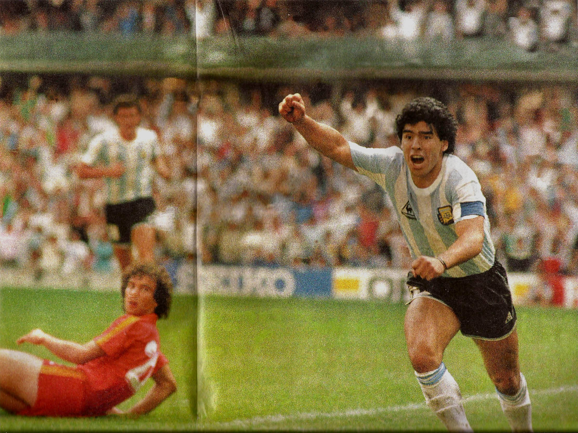 Diego Maradona celebrates his goal v. Belgium at the 1986 FIFA World Cup. At background, Jorge Valdano.